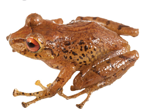 P. yanezi sp. n., QCAZ 45964, adult male, SVL = 27.8 mm